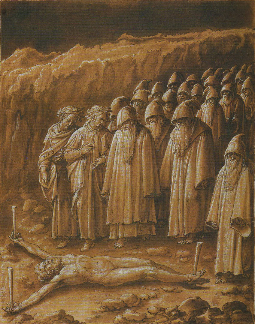 Illustration of Dante's Inferno, Canto 23